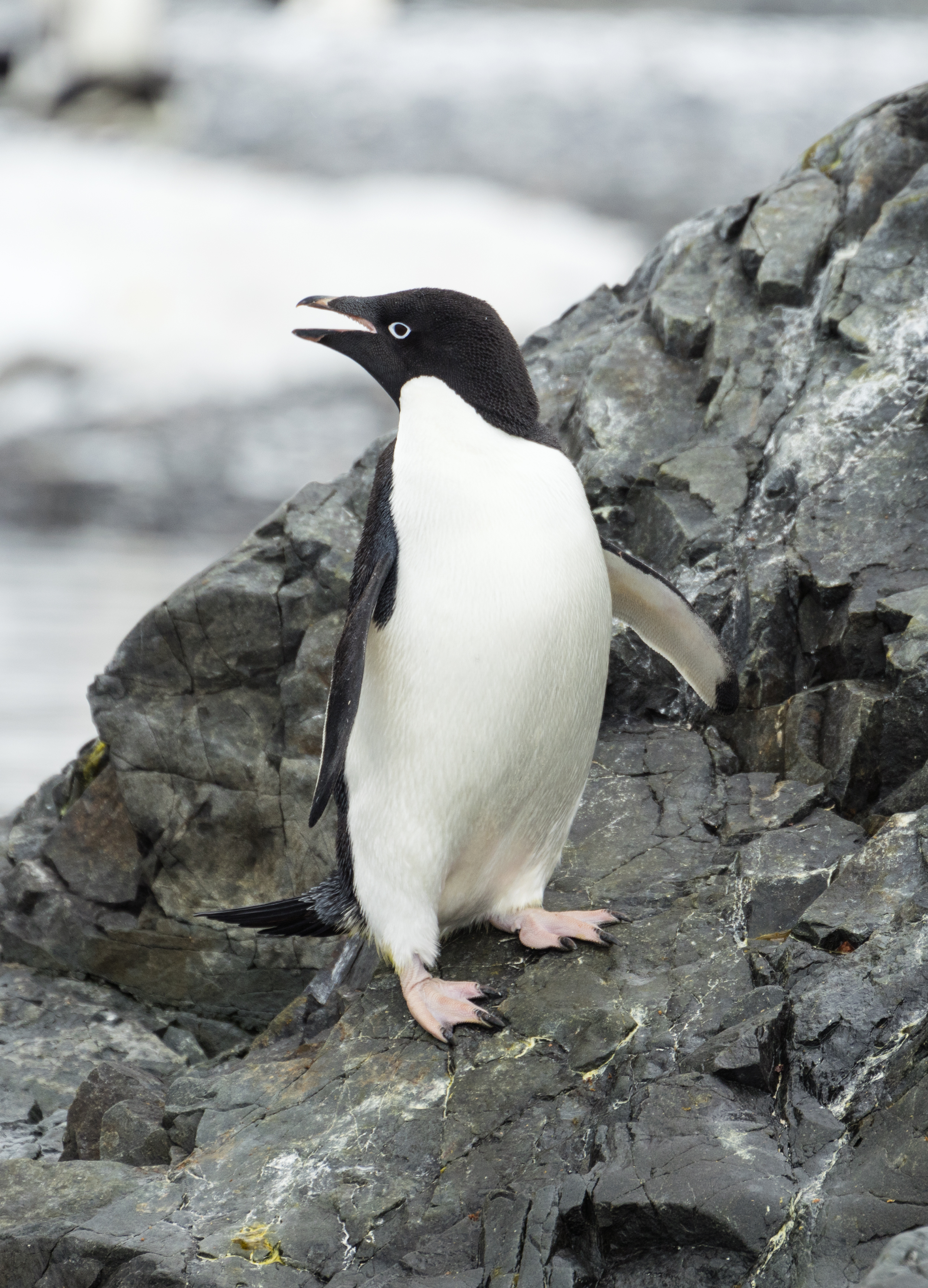 Adélie penguin (Pygoscelis adeliae), Hope Bay, Trinity Peninsula, on the northernmost tip of the Antarctic Peninsula. Image taken from a zodiac.